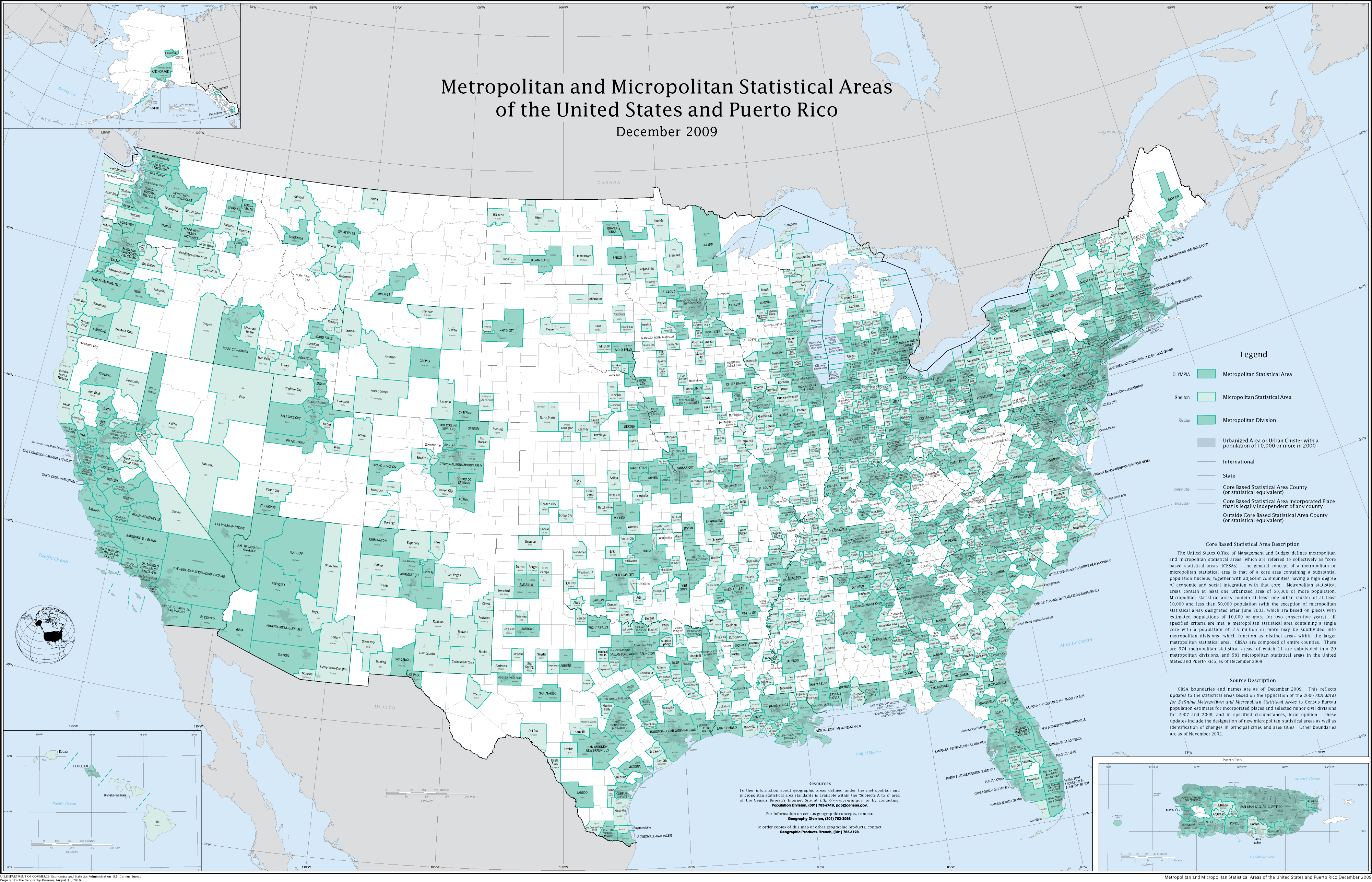 Metropolitan and Micropolitan Statistical Areas of the United States and Puerto Rico, 2009. High resolution vector PDF located at